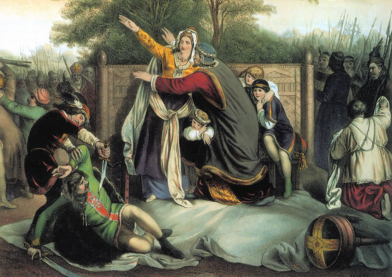 King Béla II of Hungary and his wife Helen of Serbia in the execution of the hungarian noblemen in Arad (1131). Work of Geiger Péter N. János (1805–1880)